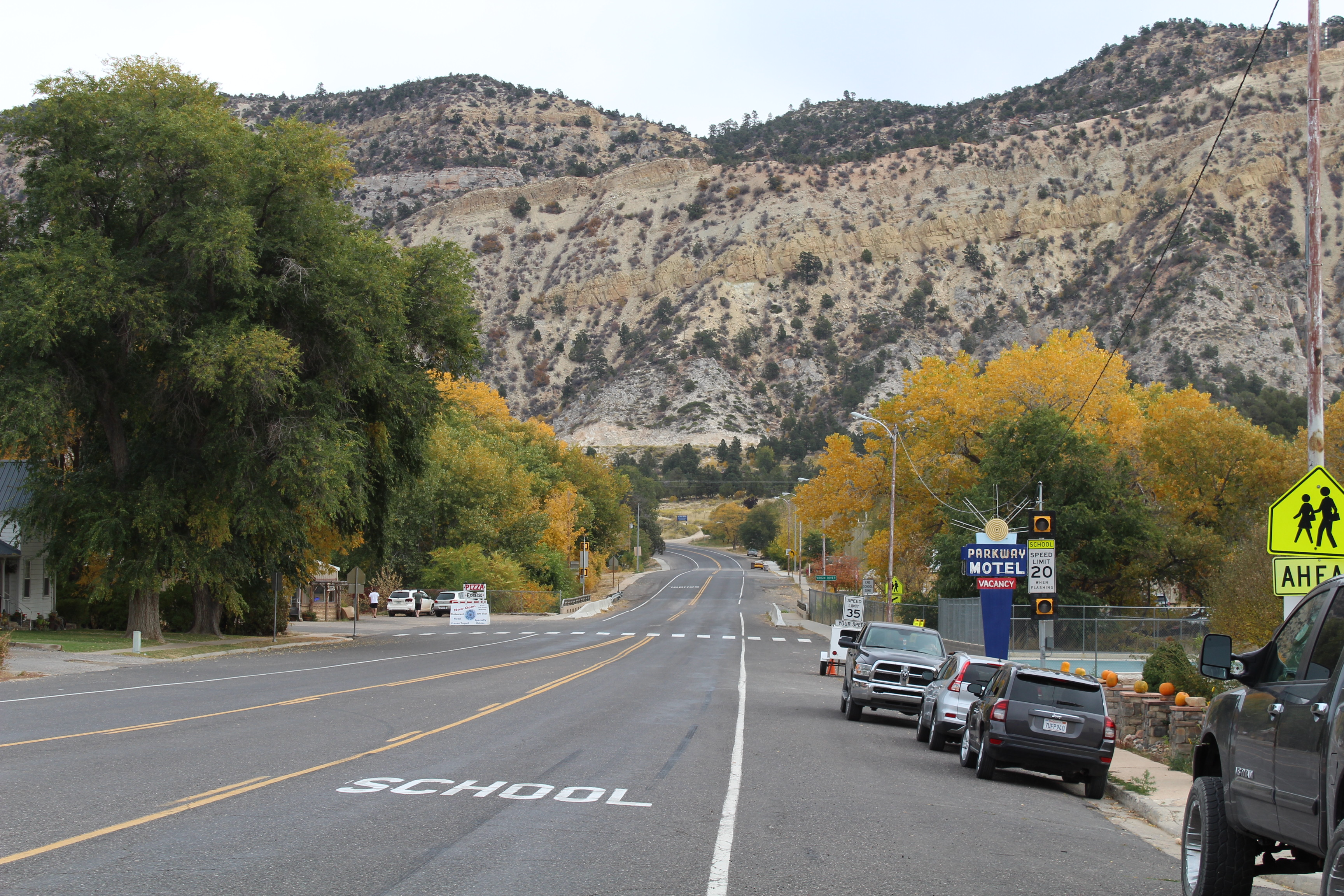 U.S. highway 89 in Orderville Utah